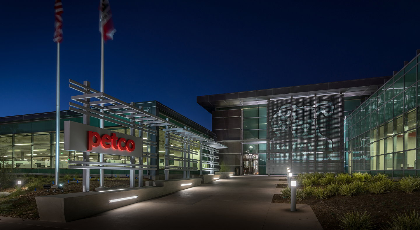 Petco's (new) Headquarters was inaugurated in 2015. New headquarters size: 22 acres Solar panels on new headquarters: 2,988